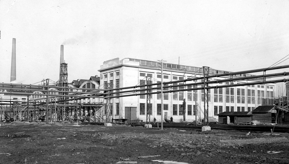 Państwowa Fabryka Związków Azotowych w Mościcach, main view of factory buildings